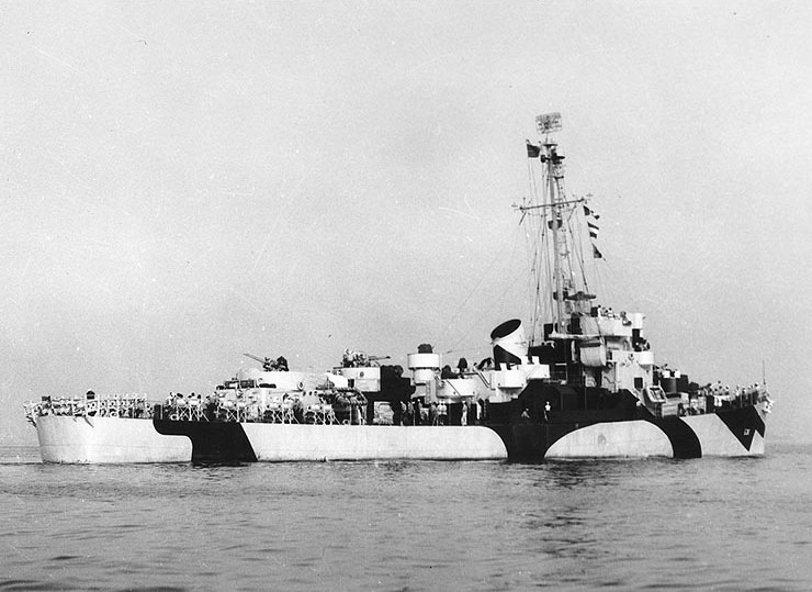 USS John M. Bermingham (DE-530) off Boston, Massachusetts. Photo #: 19-N-69700